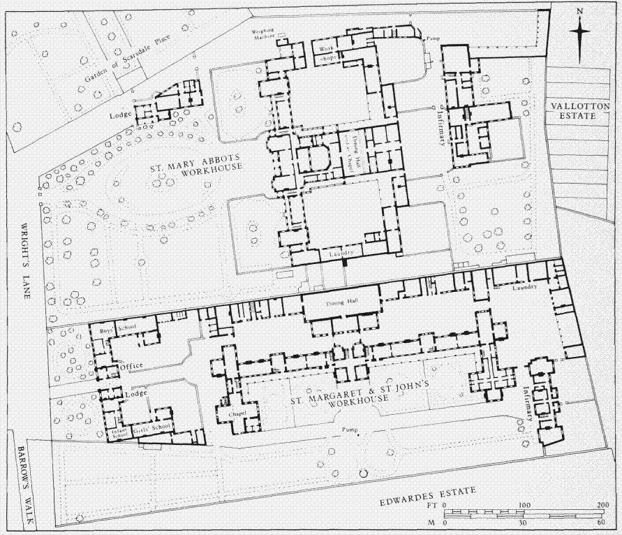 Plan of St. Mary Abbots Hospital, showing Kensington Workhouse and the Workhouse of St. Margaret and St. John, Westminster, 1867.